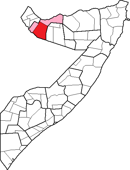 Location of the Hargeisa district in the Woqooyi Galbeed region, Somalia. Boundaries reflect those endorsed by the Republic of Somalia in 1986.